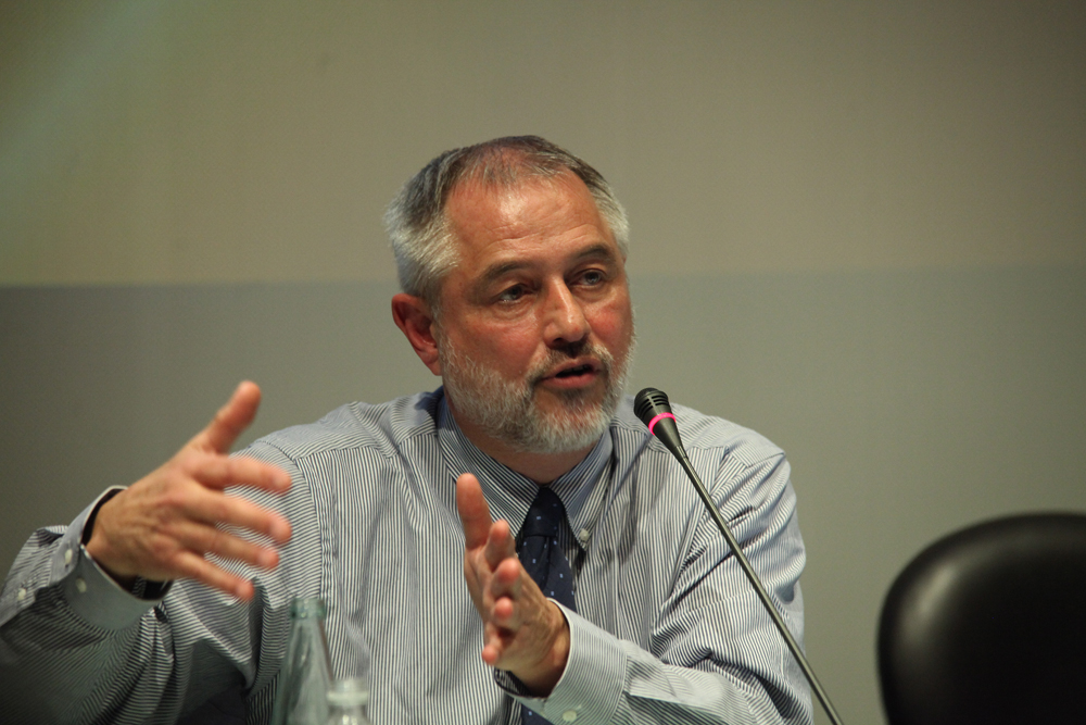 Event: MtMG | Roger Malina Date: 26 febbraio 2010 Venue: Mediateca Santa Teresa, Milan, Italy photo by Paolo Sacchi